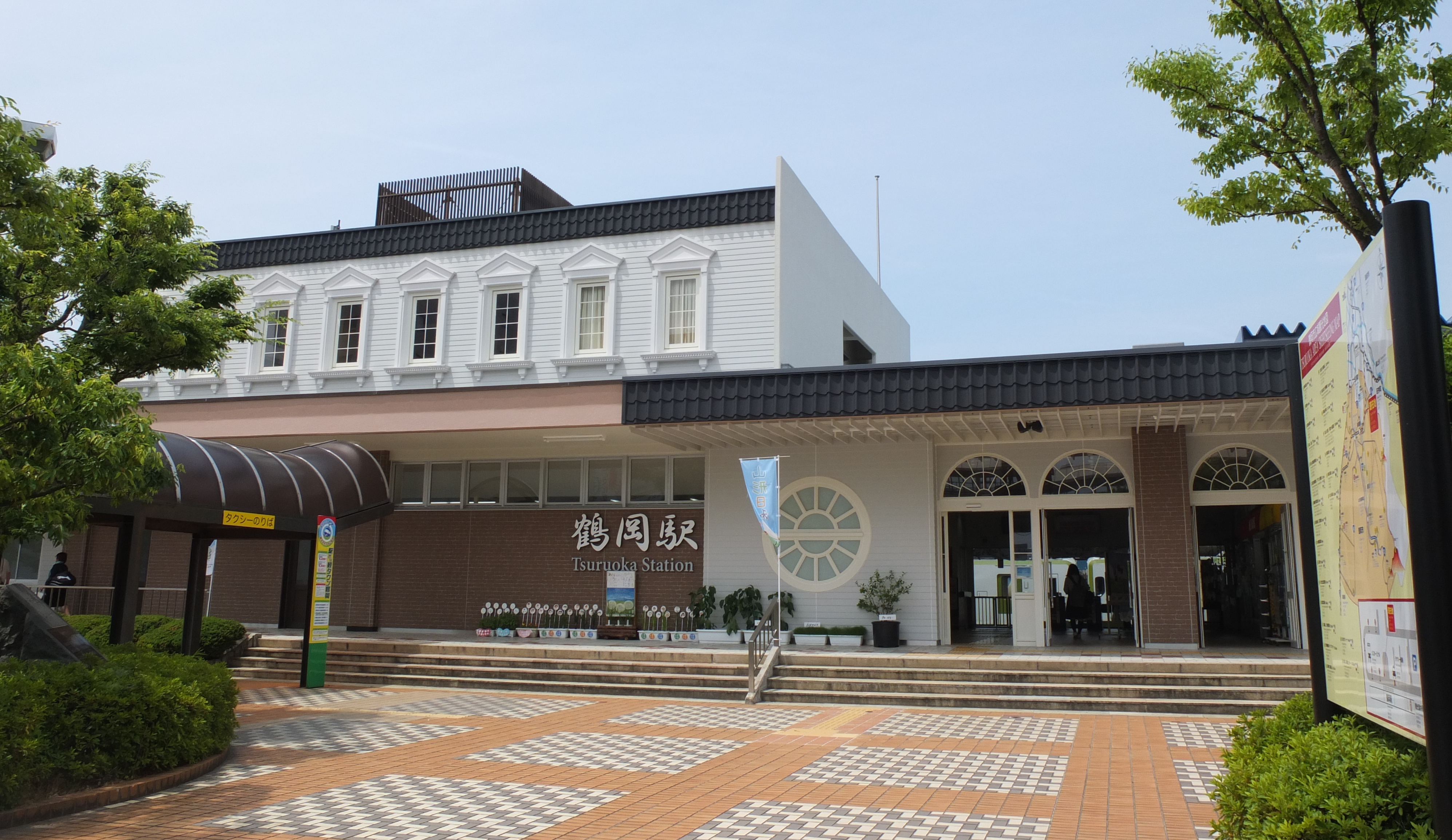 Tsuruoka Station in Yamagata Prefecture, Japan